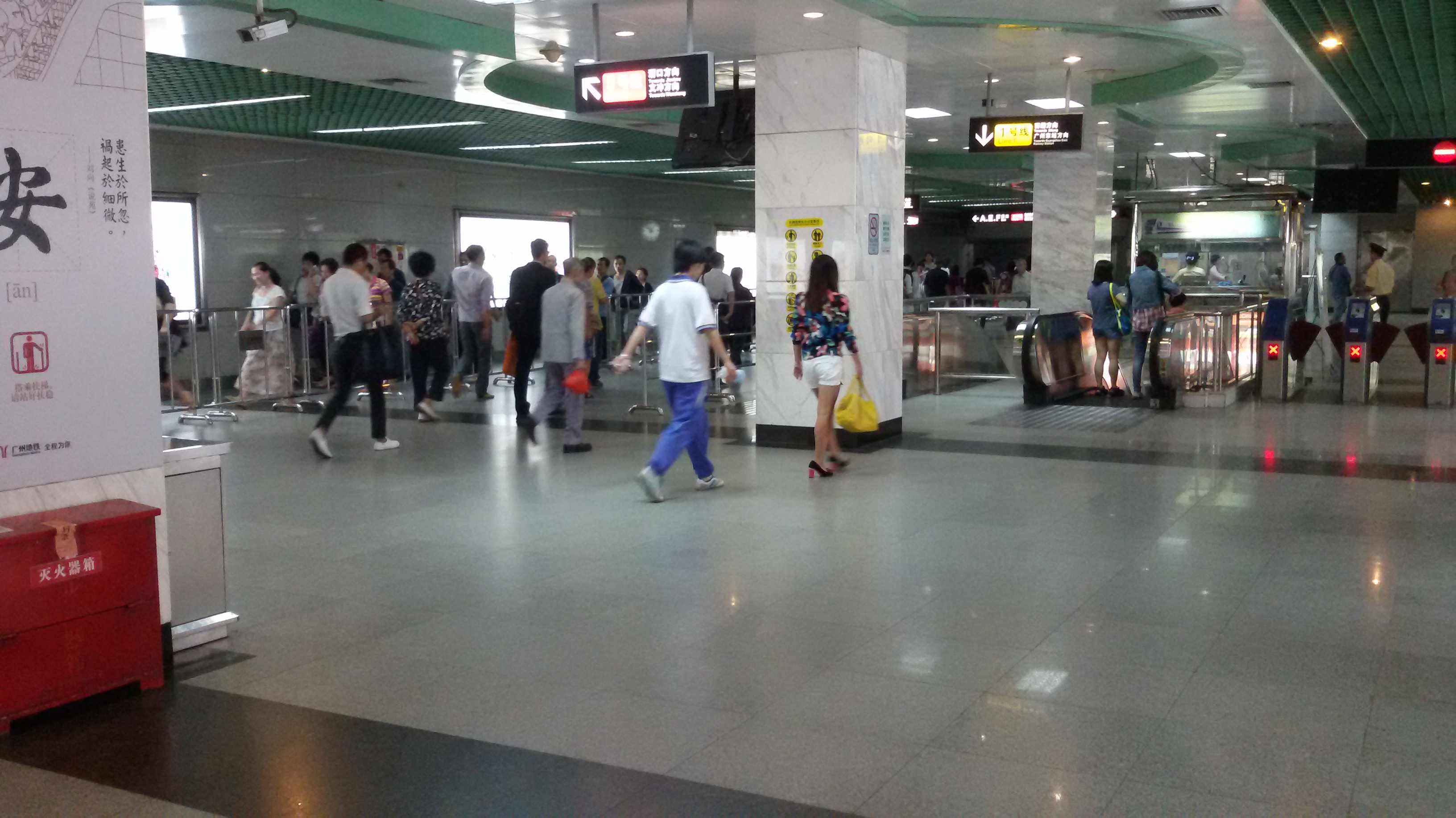 Hall at Line 1 in Yangji Station